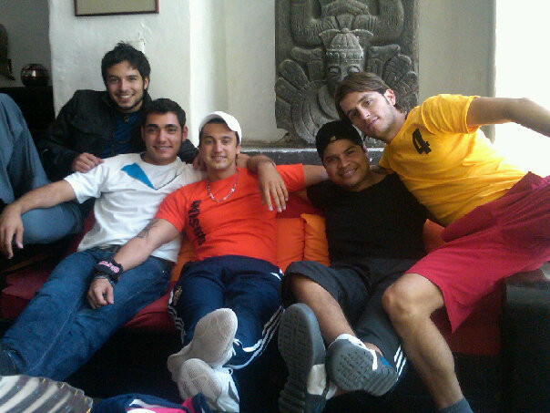 Menny con sus compaleros de generacion